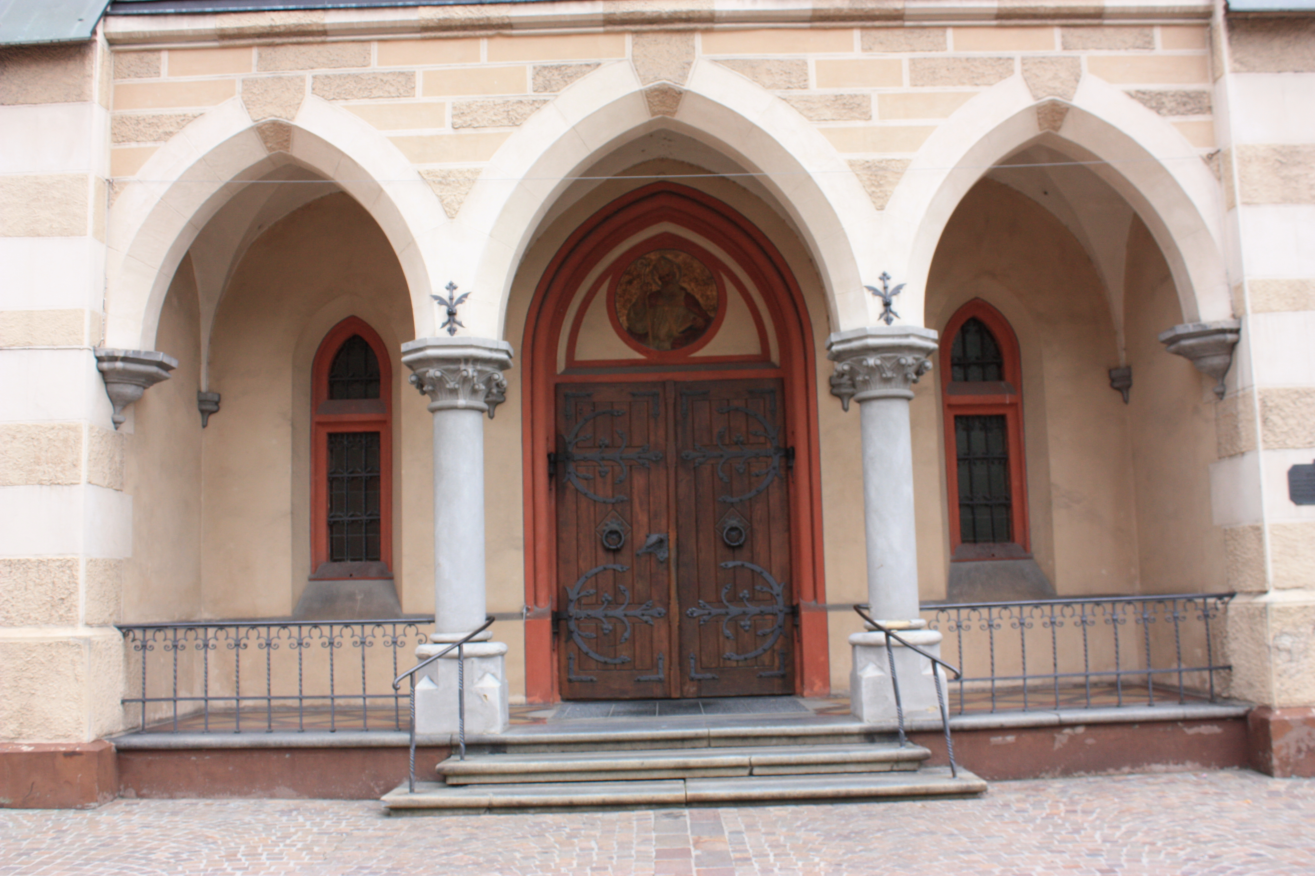 Portal of the parish church Saint Nikolaus Street:Nikolaiplatz Community:Villach